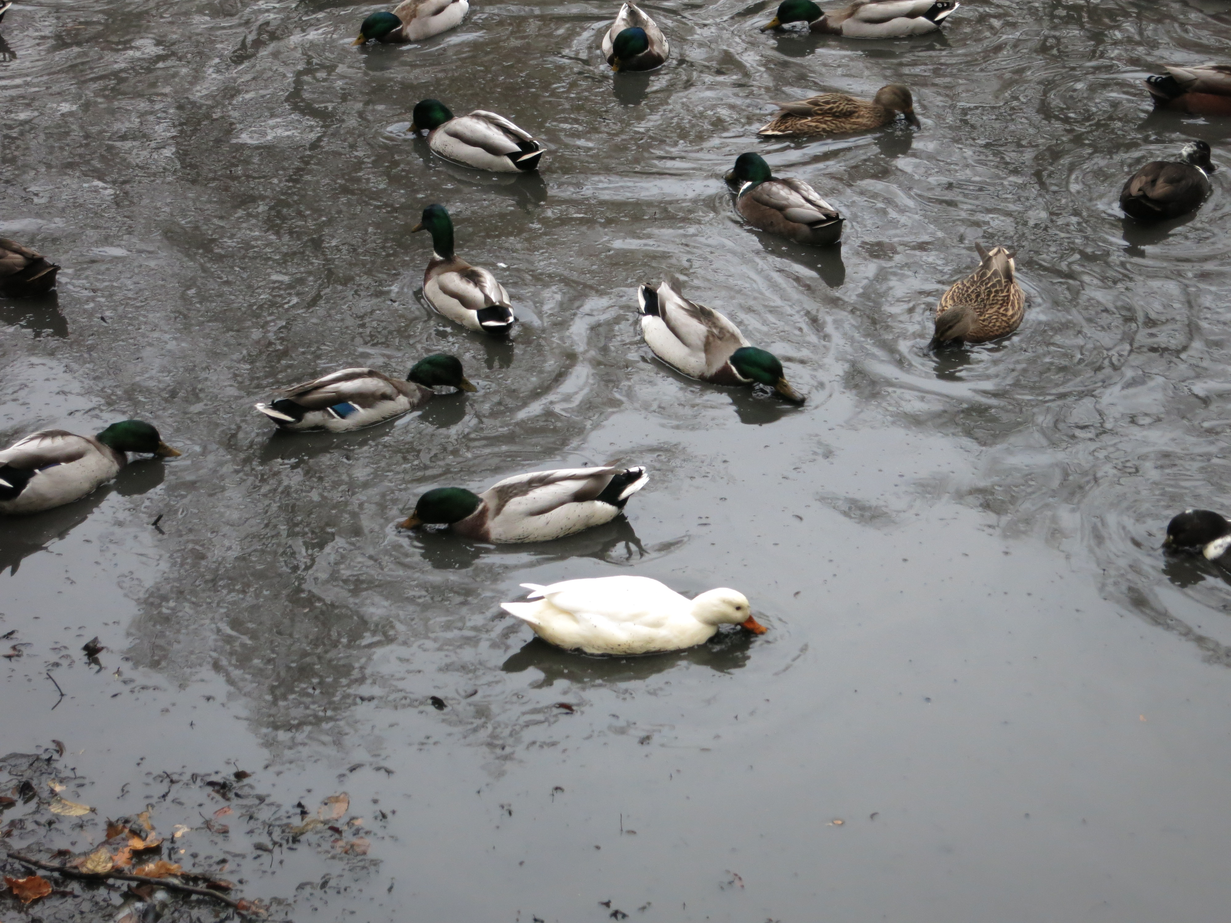 A flock of domestic ducks, including a white one